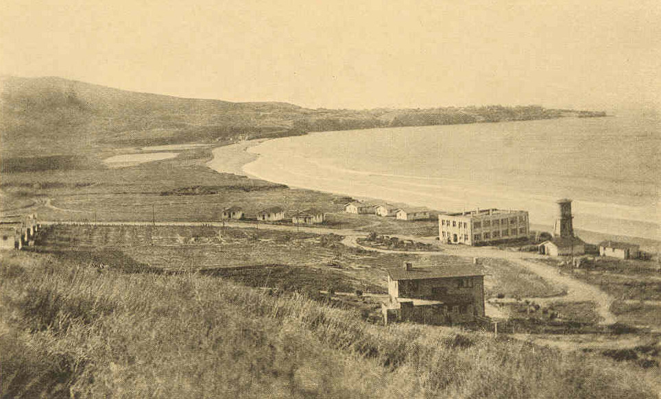 Scripps Institution for Biological Research, the town of La Jolla, California, in the Distance Subject: Scripps Institution of Oceanography (La Jolla, California), Marine laboratories--California--La Jolla Geographic Subject: United States--California--La Jolla Tag: Hatcheries, Research Institutions